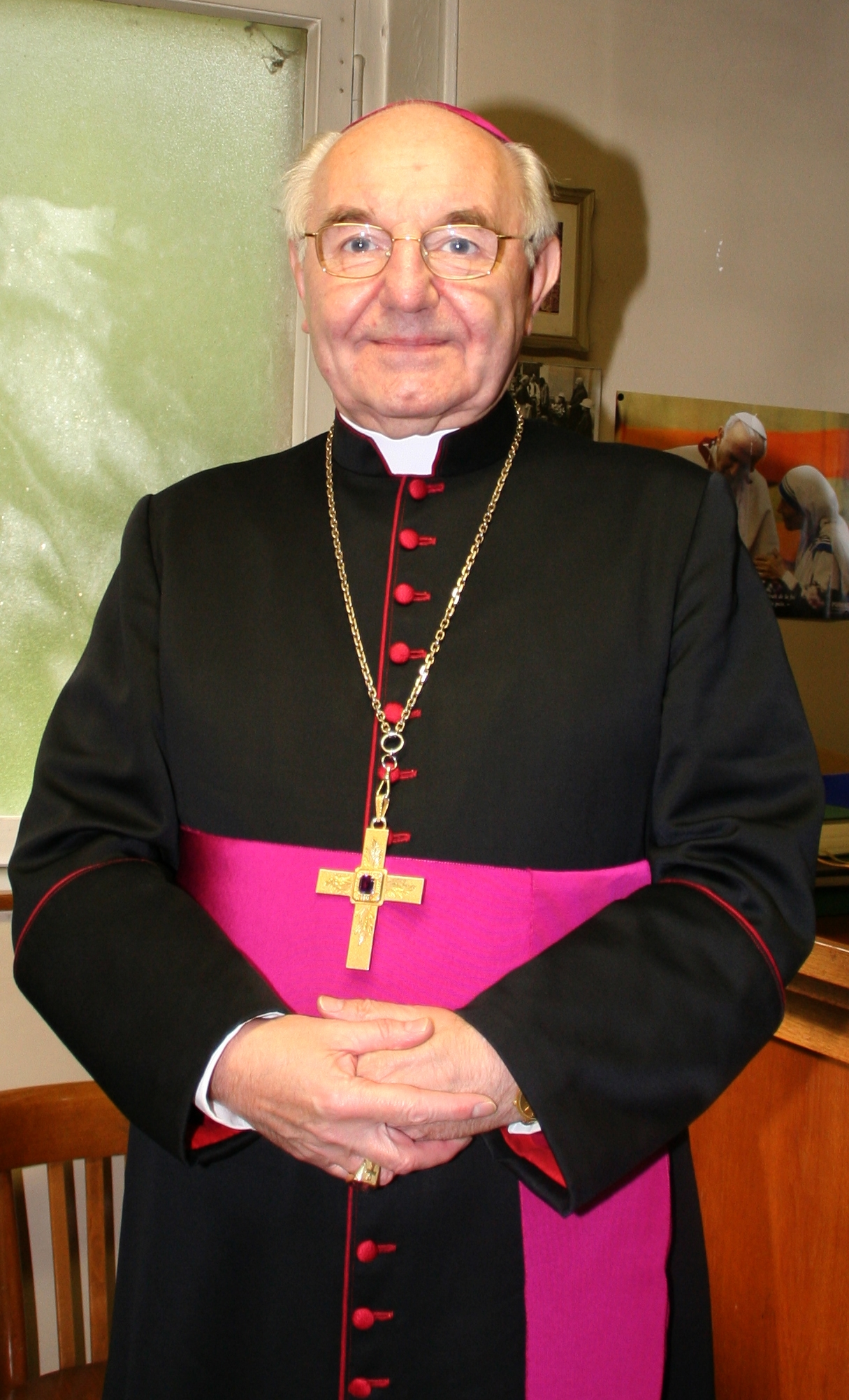 Image of Fernand Franck (°1934), Archbishop of the Archbishopric of Luxembourg since 1991